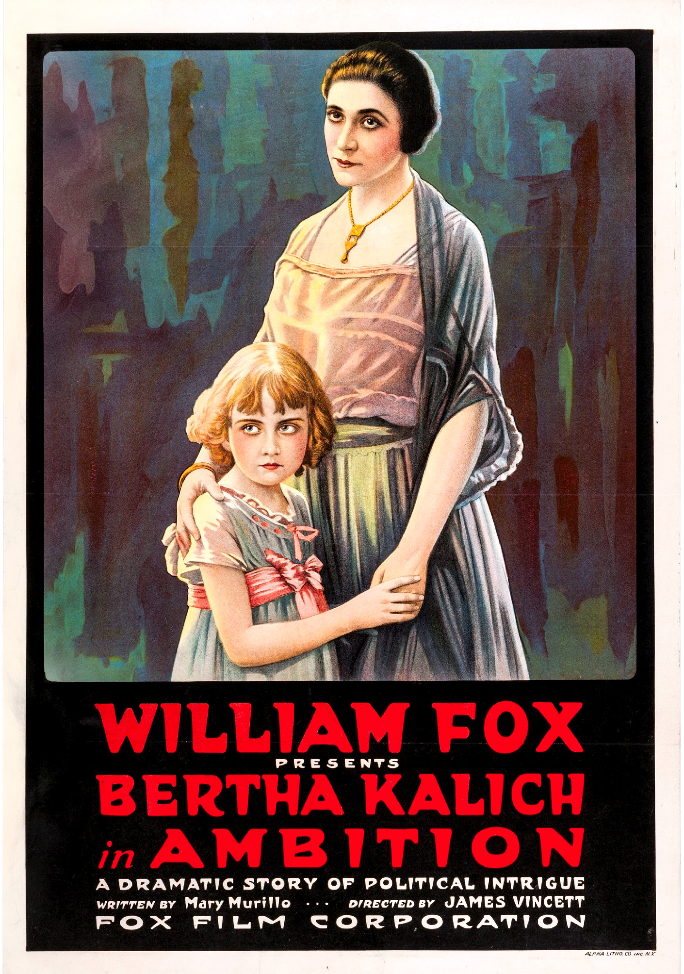 Poster for the 1916 American drama film Ambition (1916) with Bertha Kalich.